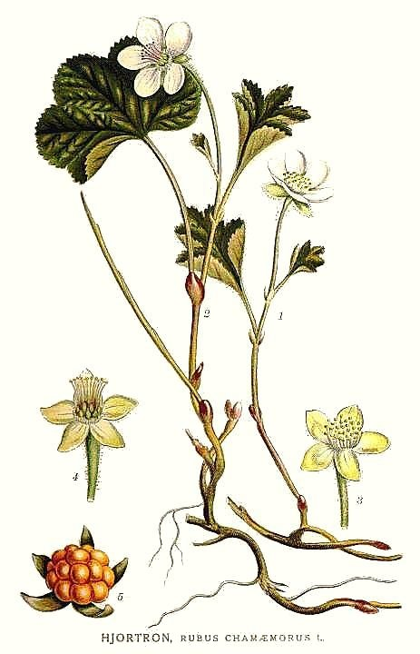 Rubus chamaemorus L. Original Description Hjortron, Rubus chamaemorus L.